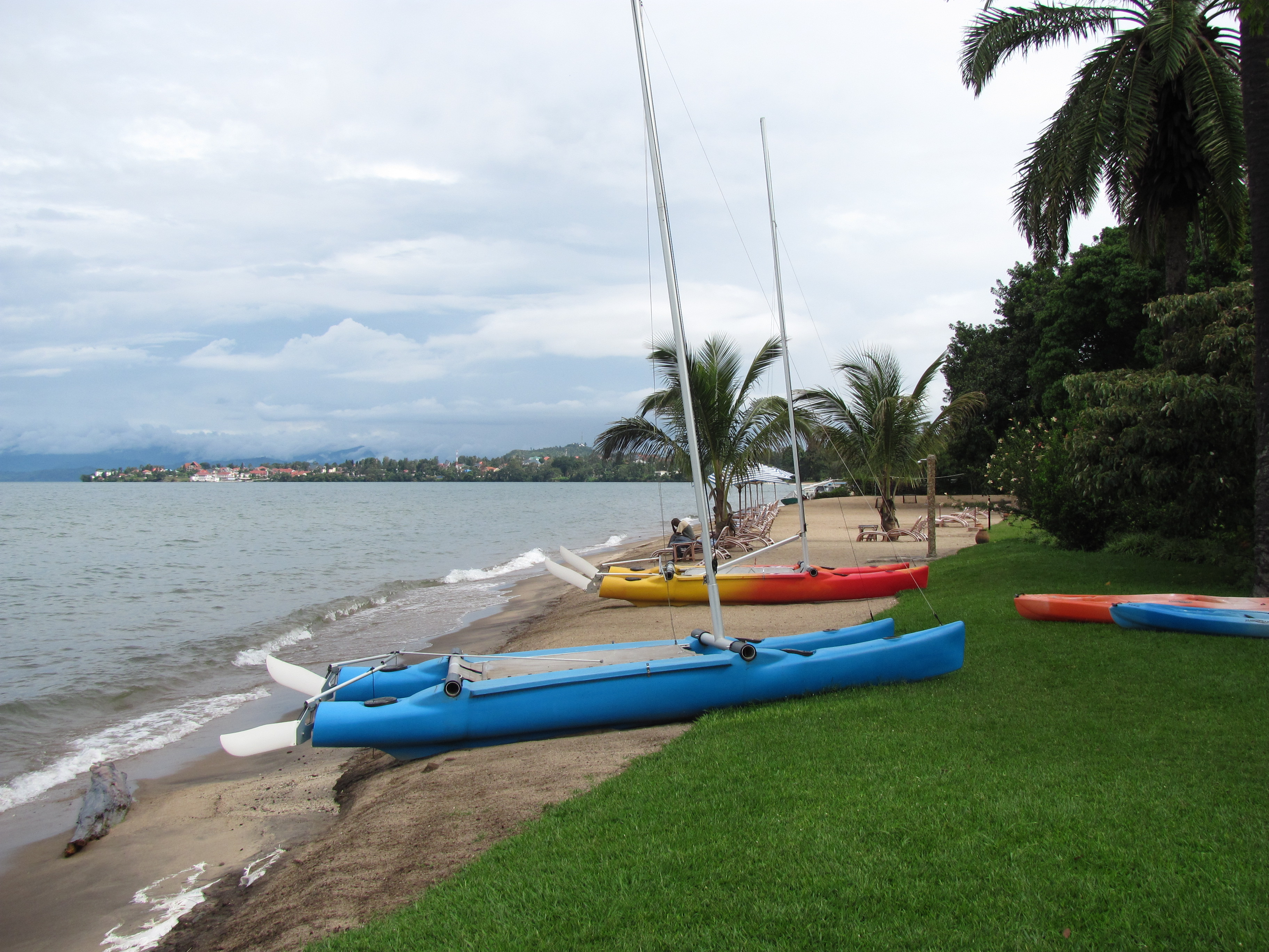 Beach in Gisenyi